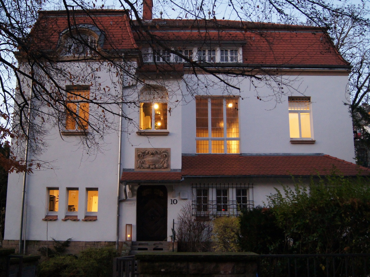 Heidelberg, Kußmaulstraße 10